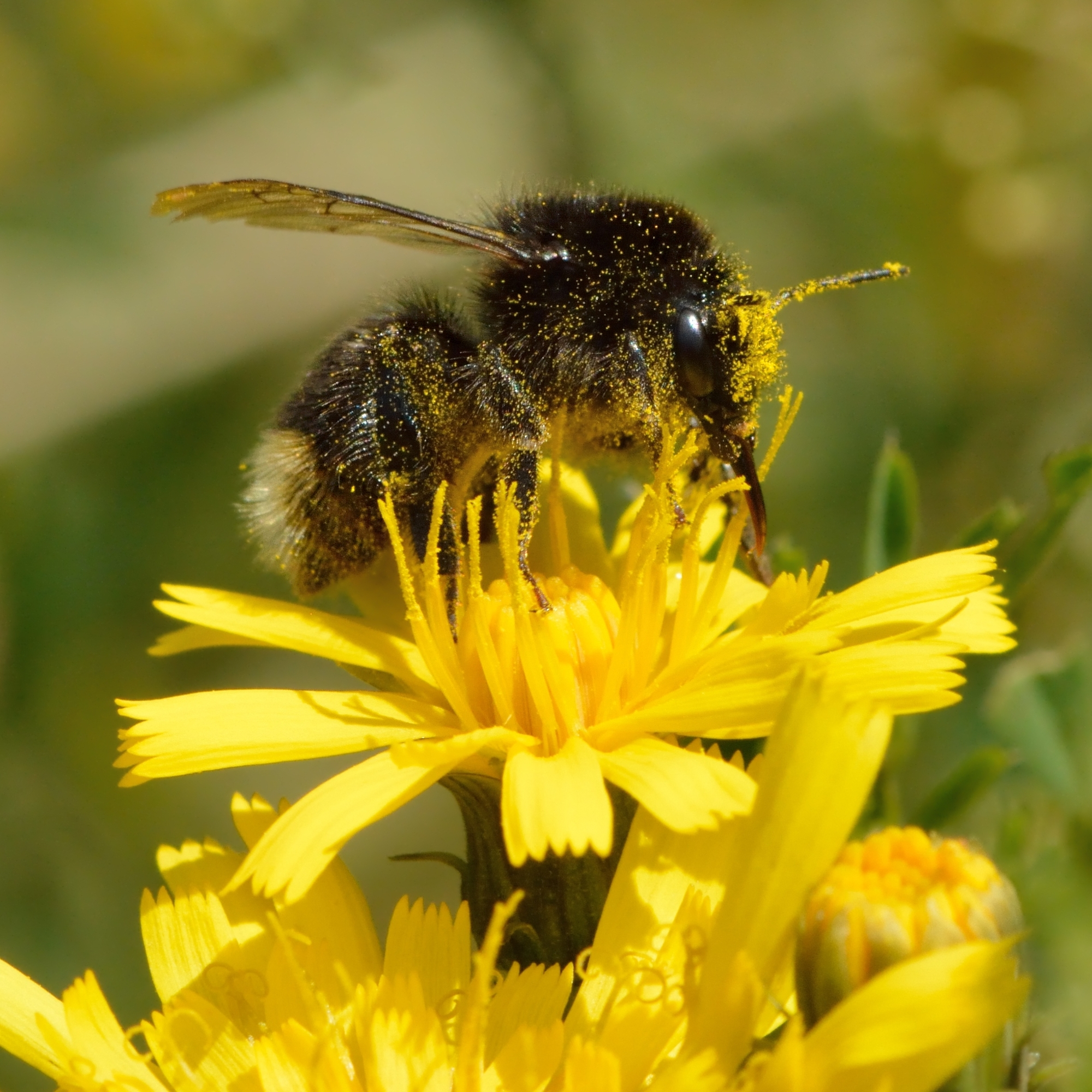 Broken-belted bumblebee (Bombus soroeensis subsp. proteus) on the narrowleaf hawksbeard (Crepis tectorum). Keila, Northwestern Estonia.